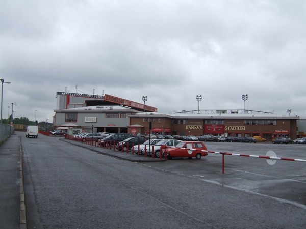 Bescot Stadium. The Saddler's moved to a new stadium here from the nearby Fellow's Park 20055. Congratulations to Walsall who have been promoted this season from Coca-Cola League 2 as Champions. They are the smallest of the league clubs in an area with Championship neighbours Wolves and West Bromwich Albion.